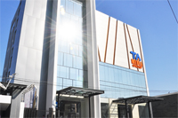 gedung ta media group